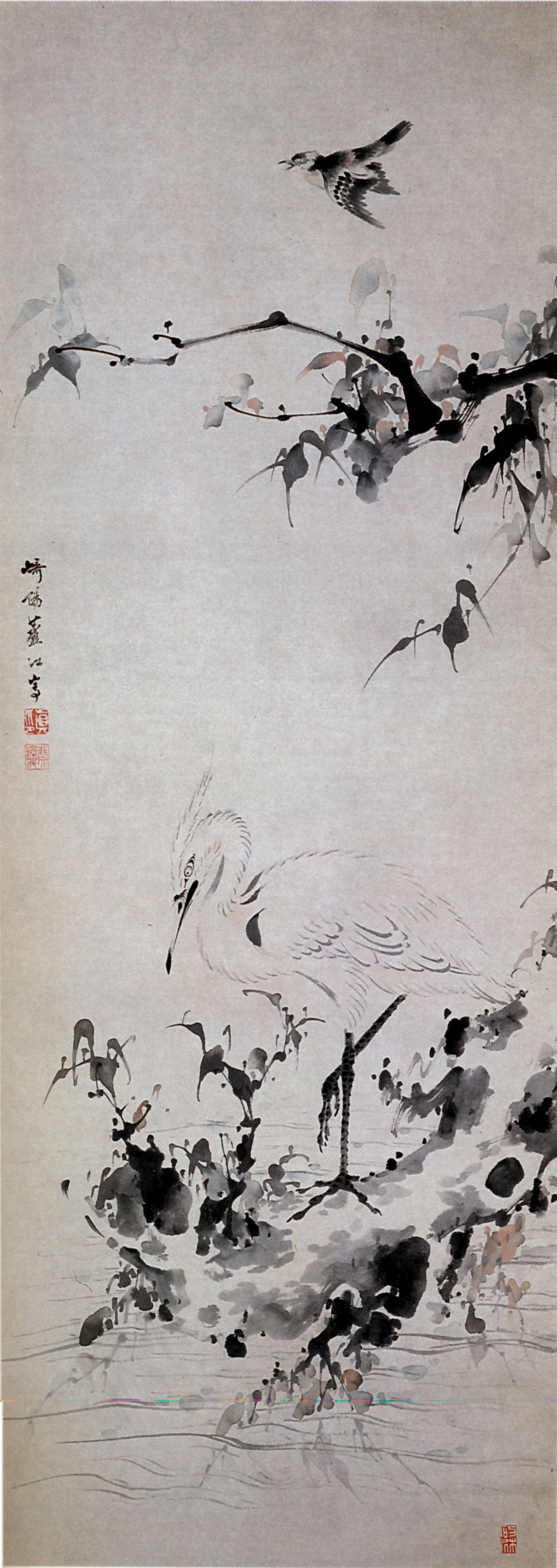 Mamura Rokō,White heron and Gray staling,A hanging scroll,Ink and slight color on paper,Middle Edo period.